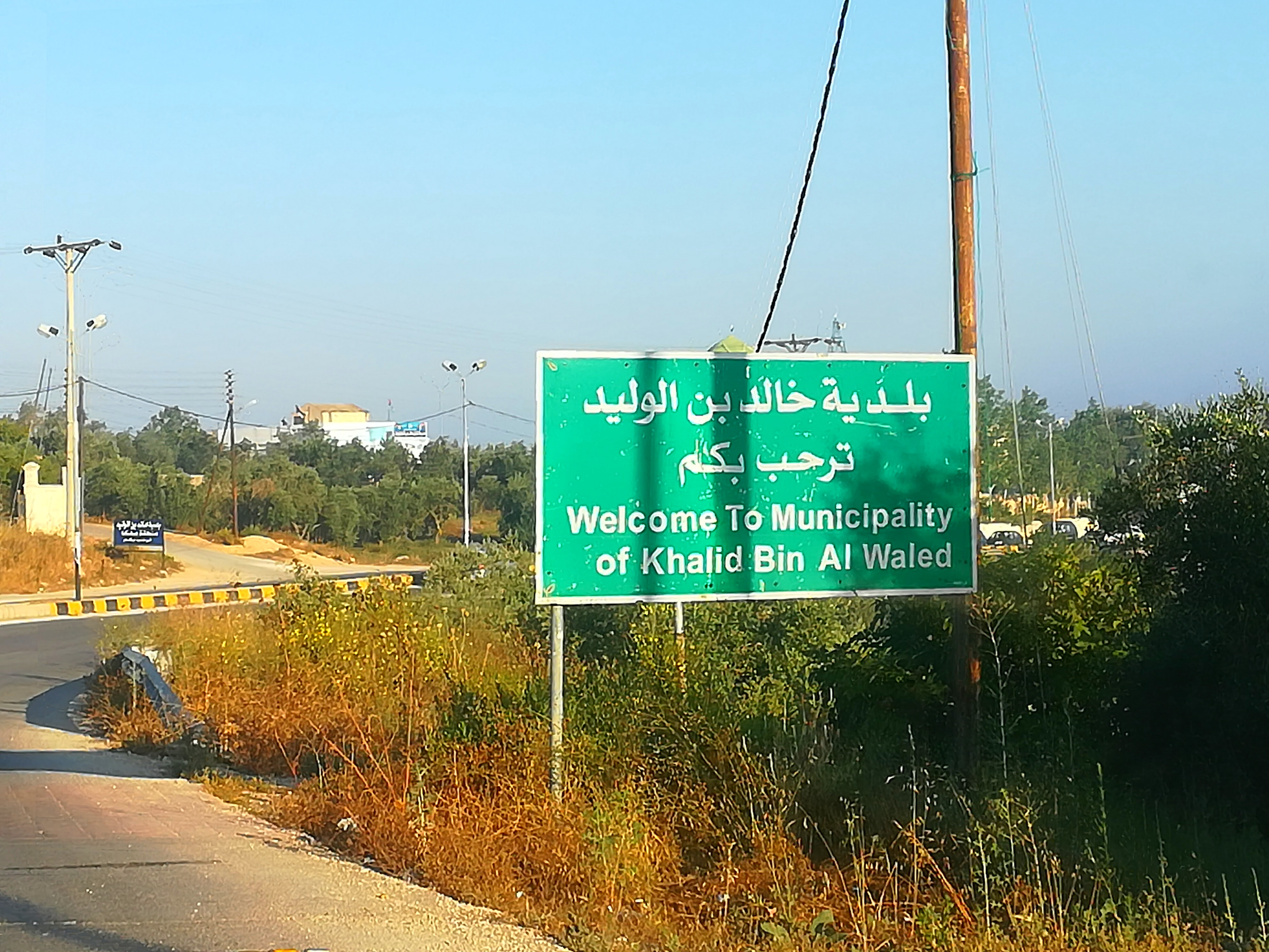 Malka village in northern Jordan